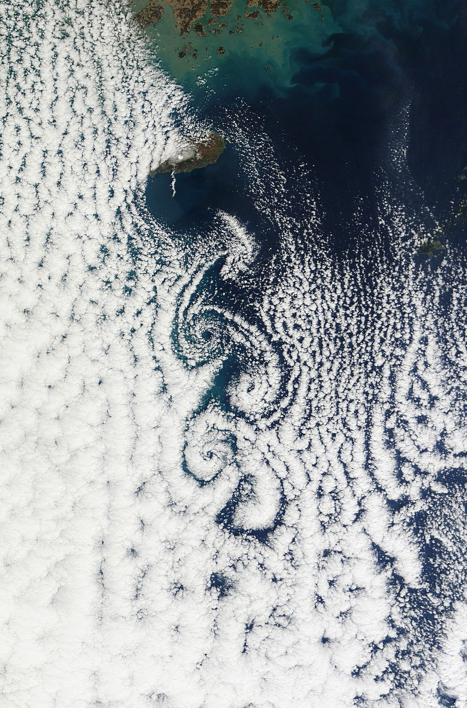 The Moderate Resolution Imaging Spectroradiometer (MODIS) on NASA’s Morning overpass Terra satellite captured this natural-color, high definition image of a Von Karman Vortex street off southern Jeju Do on January 18, 2013 at 02:35(UTC).